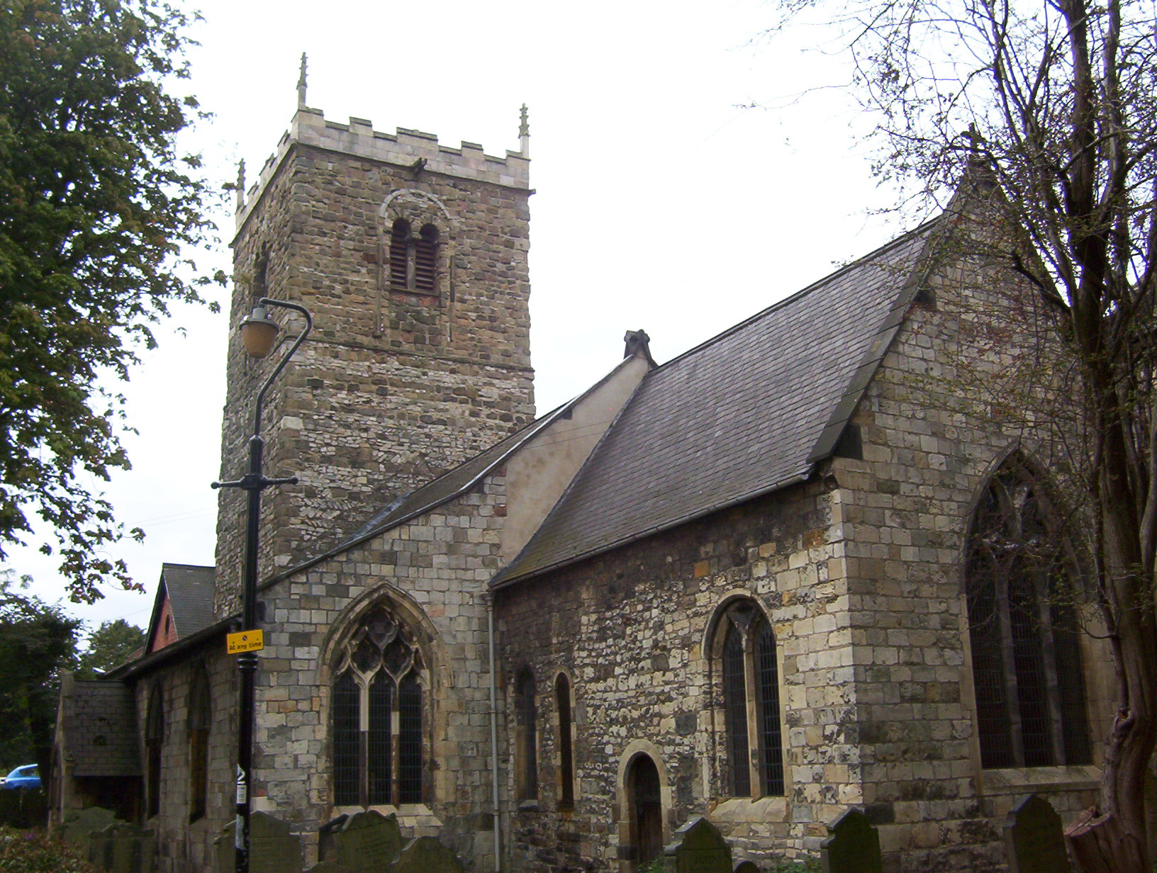 St Mary's parish church, Bishophill Junior, York, England. Some herring-bone masonry is visible on the tower, just above the nave roof